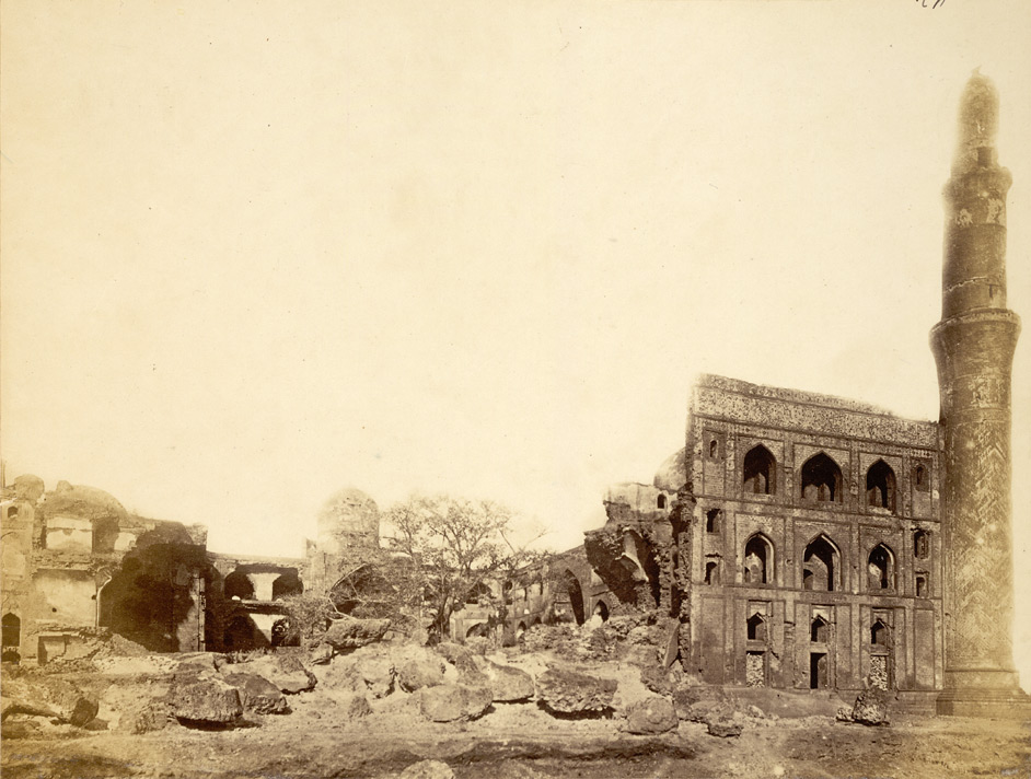 Ruined Madrasa at Bidar